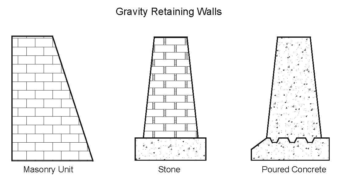 Gravity Wall Typed